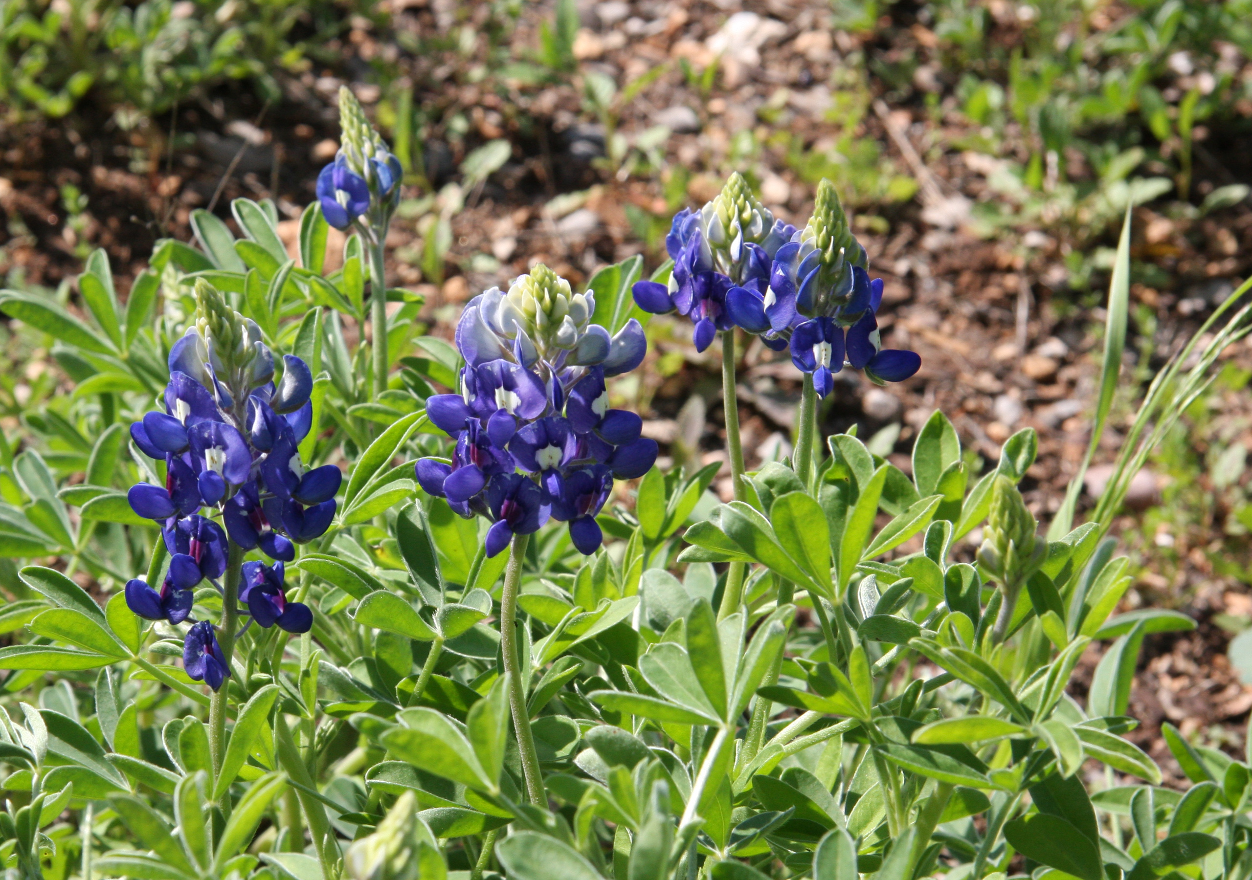 Closeup of lupines in bloom along trail, Lady Bird Johnson Wildflower Center, Austin Texas.